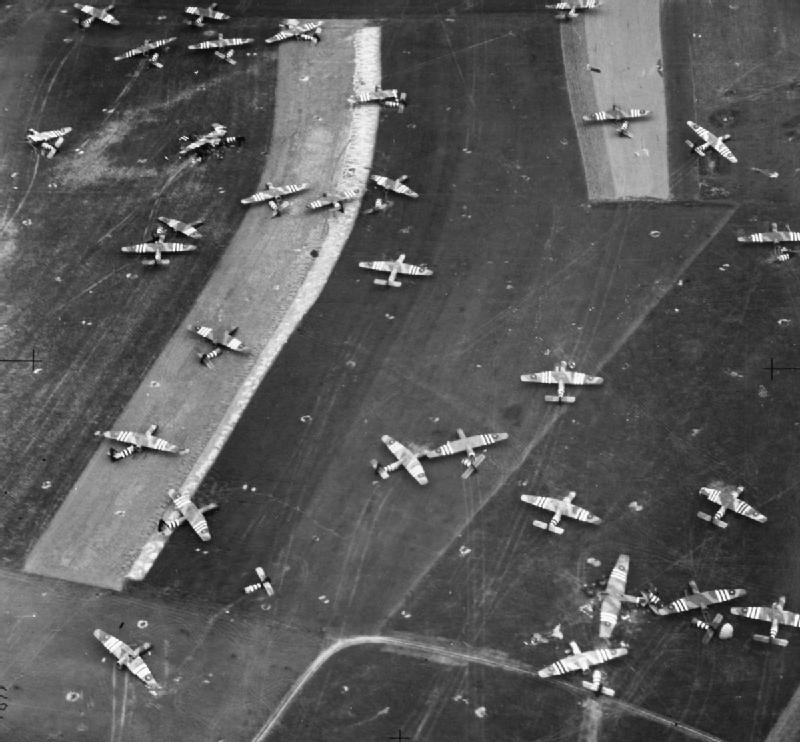 Oblique photographic-reconnaissance vertical, taken from 800 feet, showing part of Landing Zone 'N', north of Ranville, Normandy, on the day following Operation MALLARD : the airborne landing of 6th Airlanding Brigade and the Airborne Armoured Reconnaissance Regiment in the evening of 6 June 1944. Airspeed Horsa troop-carrying gliders and one damaged GAL Hamilcar tank-carrying glider (lower right) litter this part of the LZ close to the Ranville-Salanelles road.